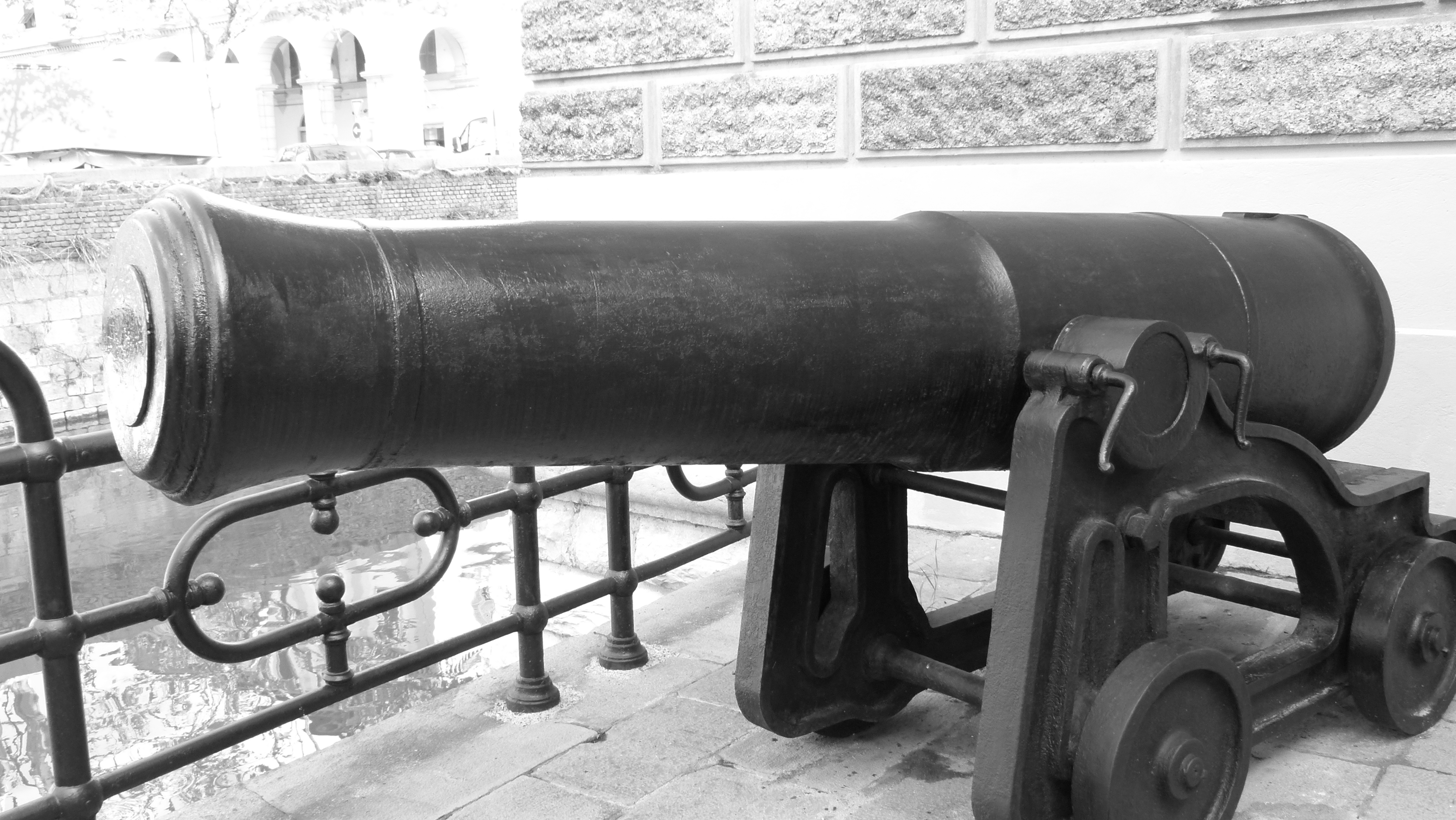 80 pdr, smoothbore, muzzle loading gun used by the Kingdom of Sardinia Navy (middle 19th century)on display at the entrance of the Museo Tecnico Navale, La Spezia (Italy)